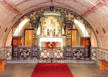 The Interior of The Italian Chapel, Lambholme, Orkney Islands. This beautiful chapel was constructed and decorated by Italian Prisoners of War held on the Orkneys during World war 2. The main Church is a simple Nissen hut. The art work in the chapel, all done by hand, is magnificent.